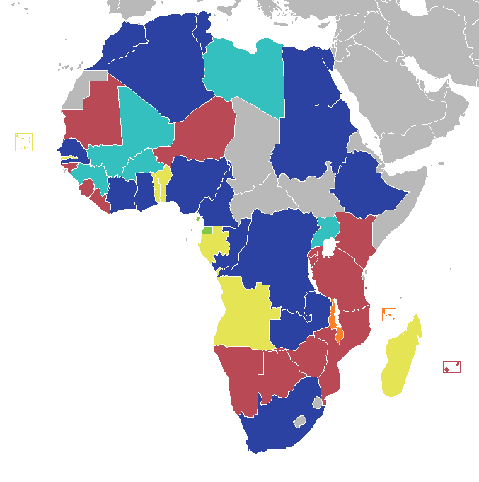 Africa map - Africa Cup of Nations performances